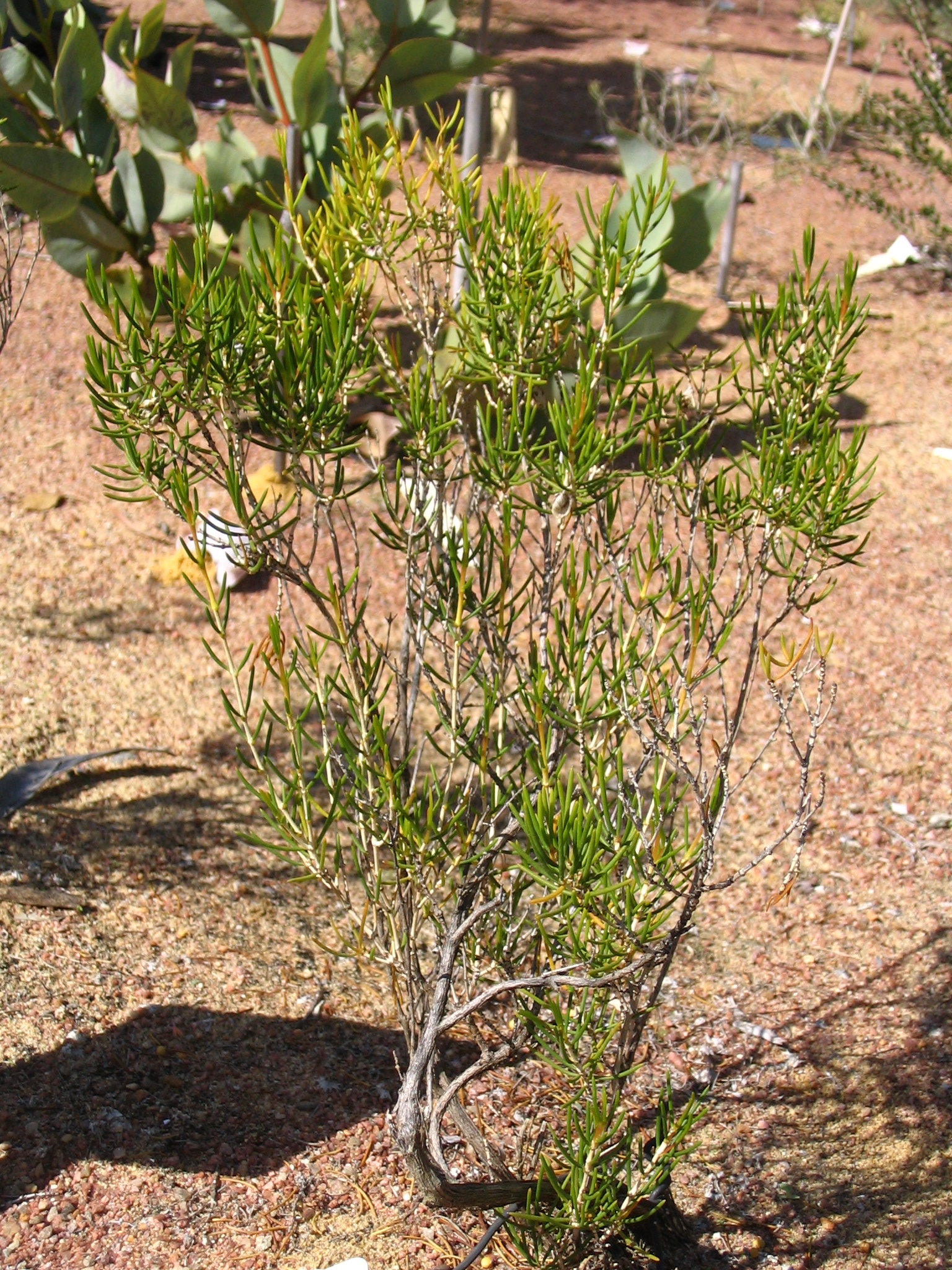 Verticordia galeata shrub. In Kings Park, Perth, Australia.